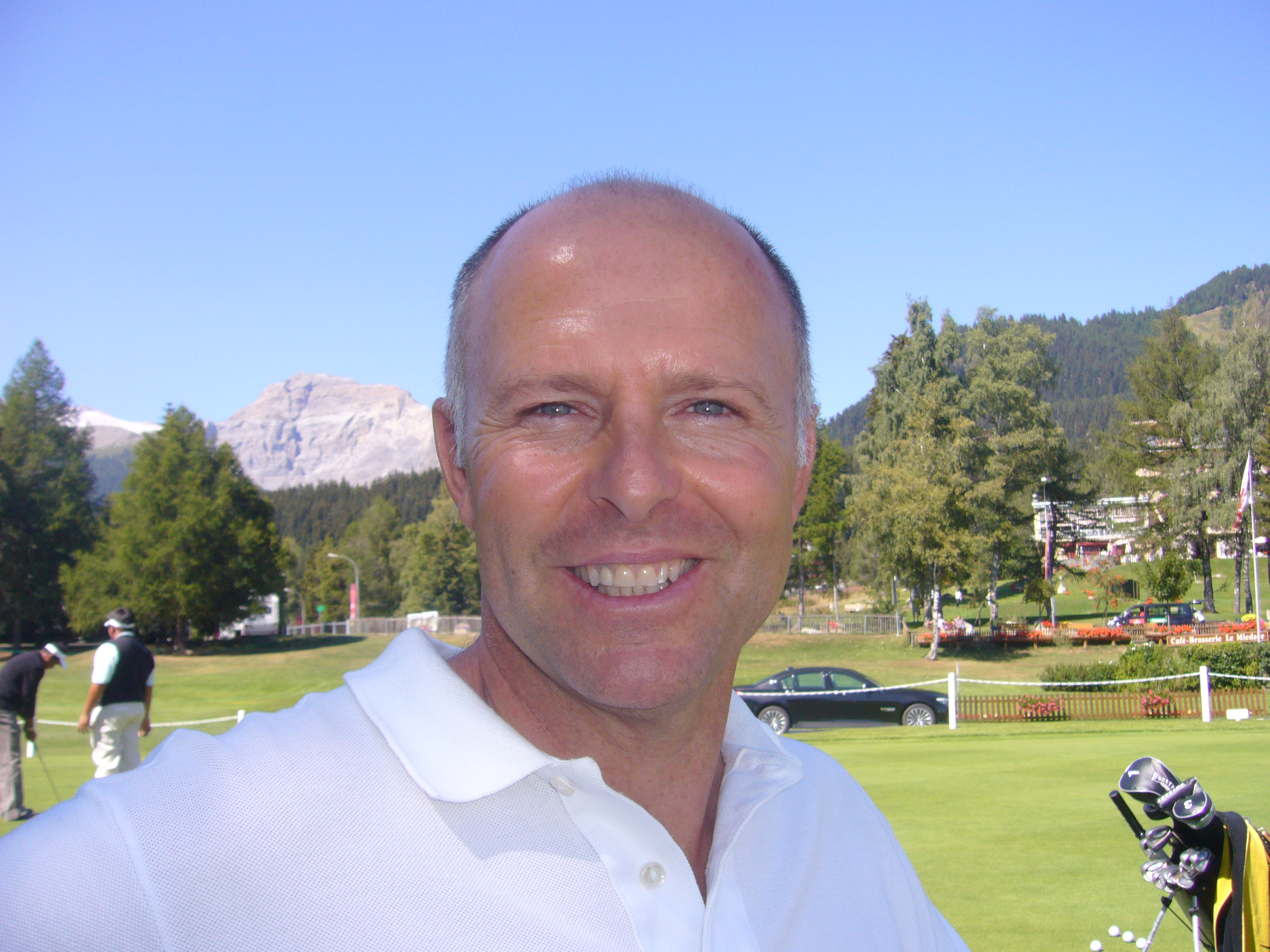 Jean Francois Remesy, French professional golfer